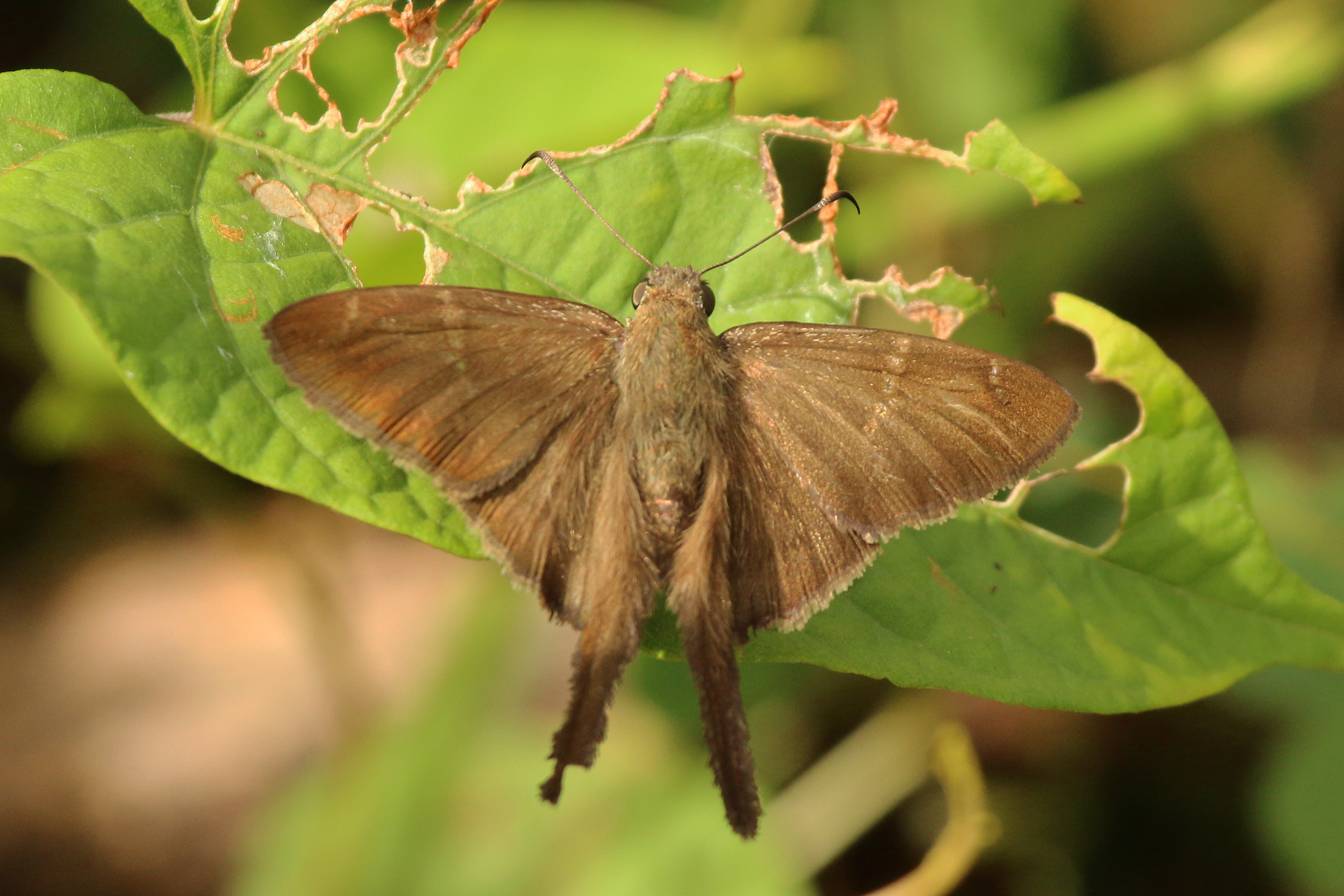 Plain longtail (Urbanus simplicius) Tobago Tobago